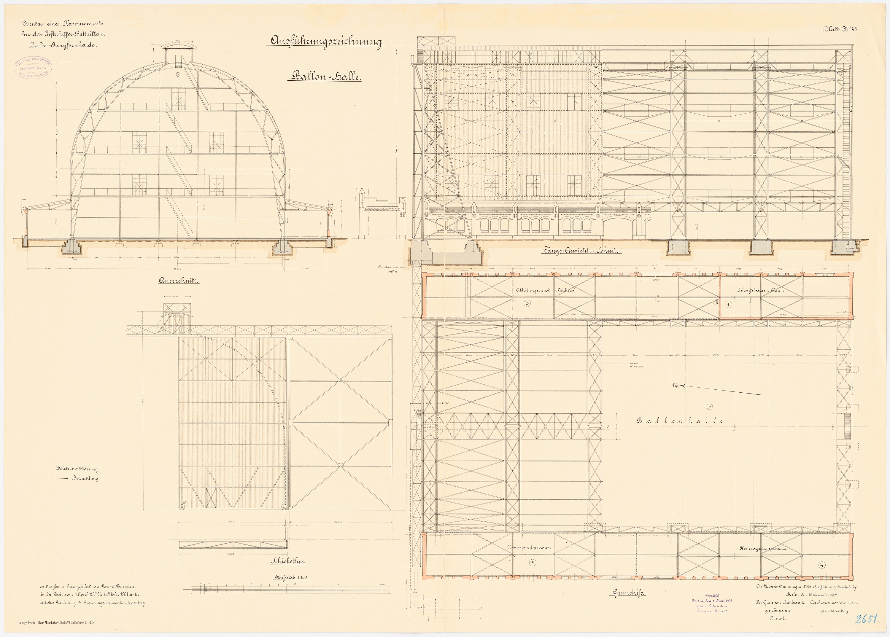 Feuerstein , Kaserne für das Luftschiffer-Bataillon, Berlin-Jungfernheide: Ballon-Halle: Grundriss Querschnitt Längsschnitt Detail Schiebetor 1:100. Lithographie farbig auf Karton, 74 x 103,4 cm (inkl. Scanrand). Architekturmuseum der Technischen Universität Berlin Inv. Nr. 30046.